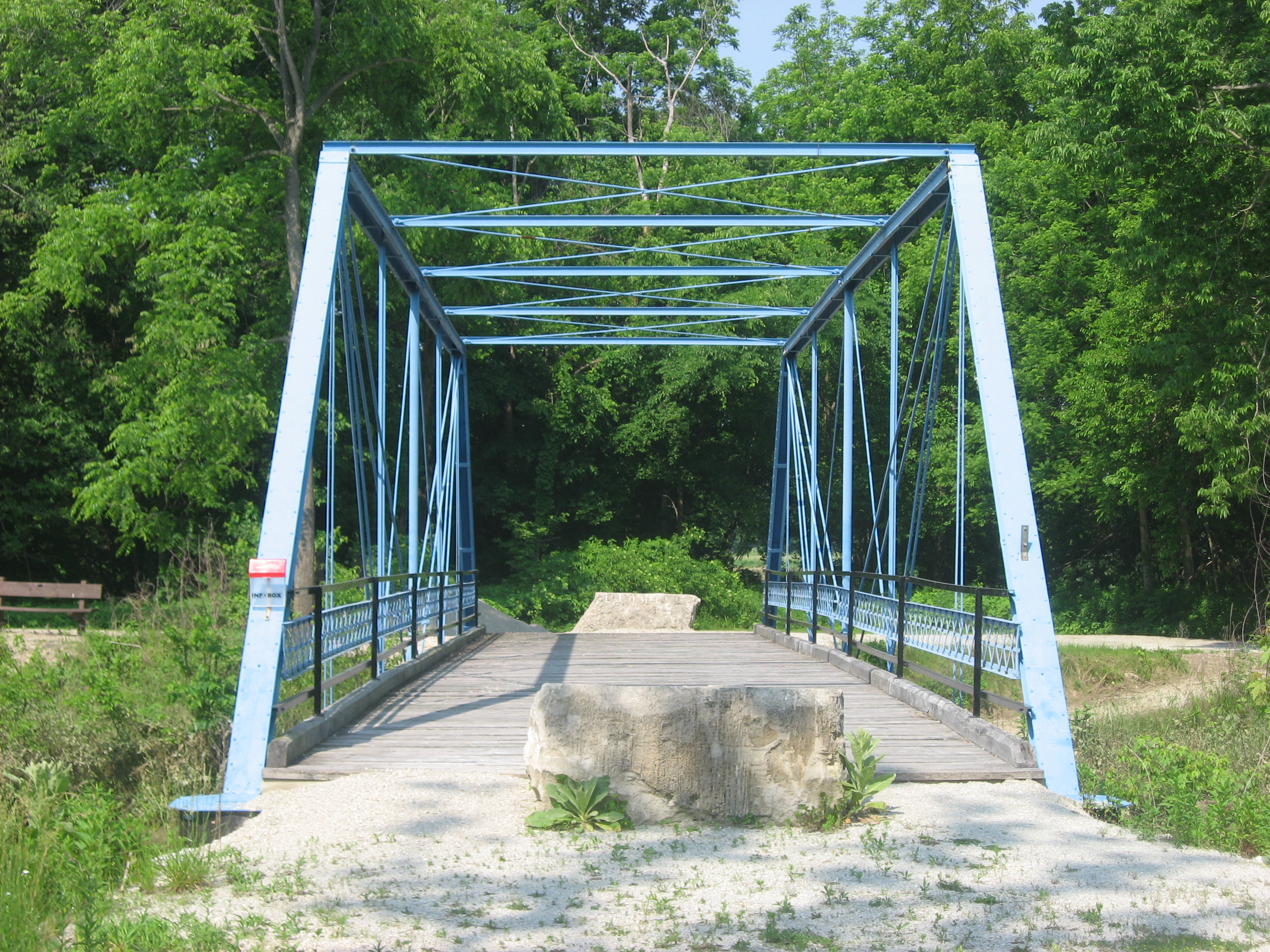 Eastern portal of the Pulaski County Bridge No. 31: built to carry County Road 1175W over the Big Monon Ditch southeast of Medaryville in White Post Township, Pulaski County, Indiana, United States, it has been moved to span the Wabash and Erie Canal on the southwestern edge of Delphi, Indiana. Built in 1905, it is the only surviving Stearns Truss bridge in the United States, and it was listed on the National Register of Historic Places before its move to the current location.